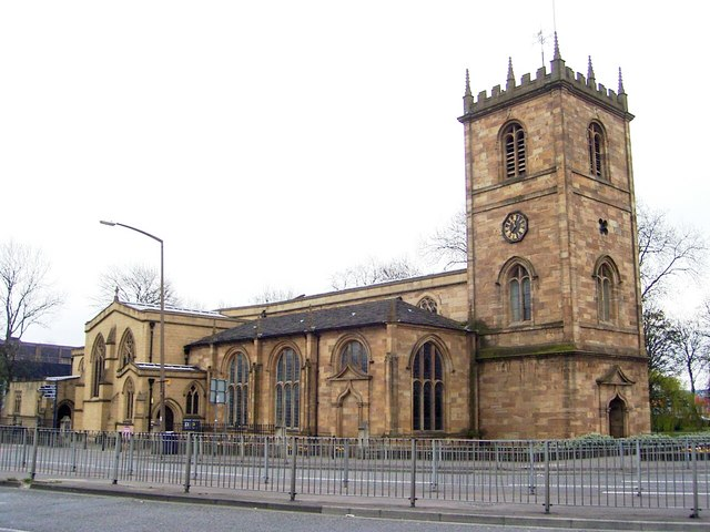 All Saints Dewsbury Minster Founded in AD 627 by Paulinus the first Bishop of York the Parish stretched for 400 square miles,there are nine ancient churches left in the Kirklees area All Saints being the Mother church. The Tower was built in 1767 by John Carr who was born in Horbury.